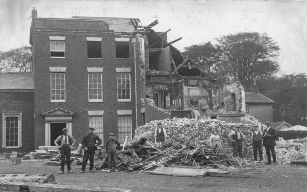 The demolition of the Tudor Hall and Chapel in the country house